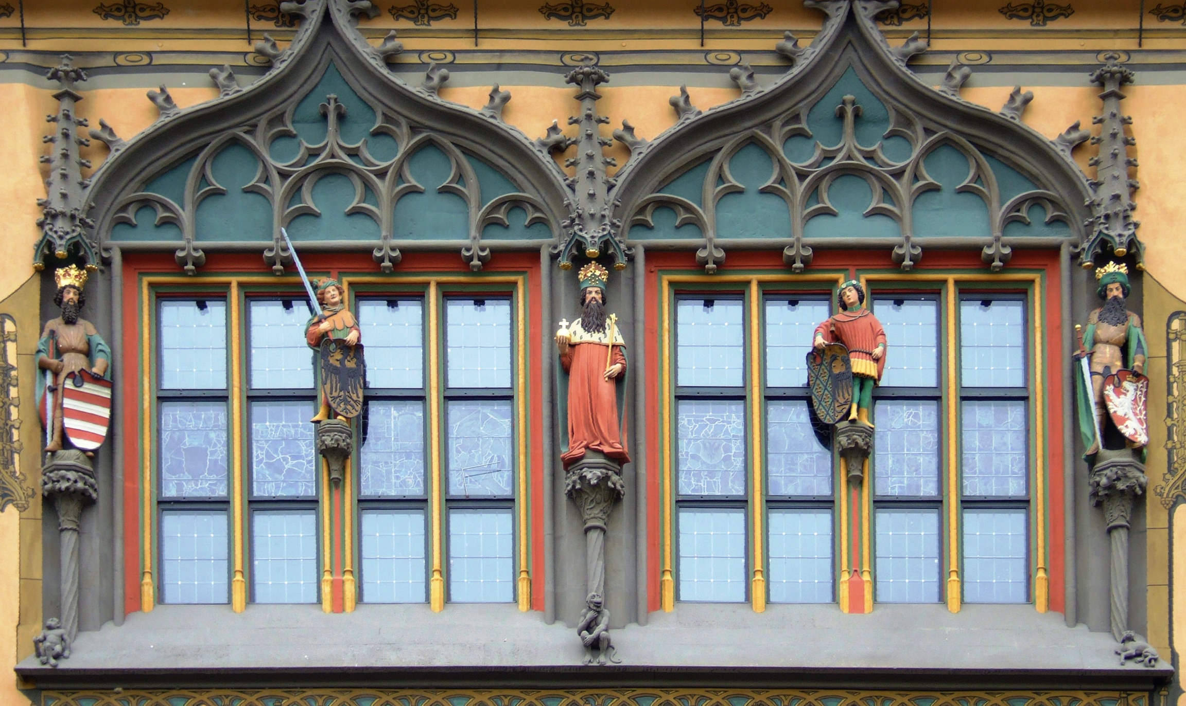 Carved figurs on a Window ("Kaiserfenster") at the town hall of Ulm/Germany, by Hans Multscher ca. 1430